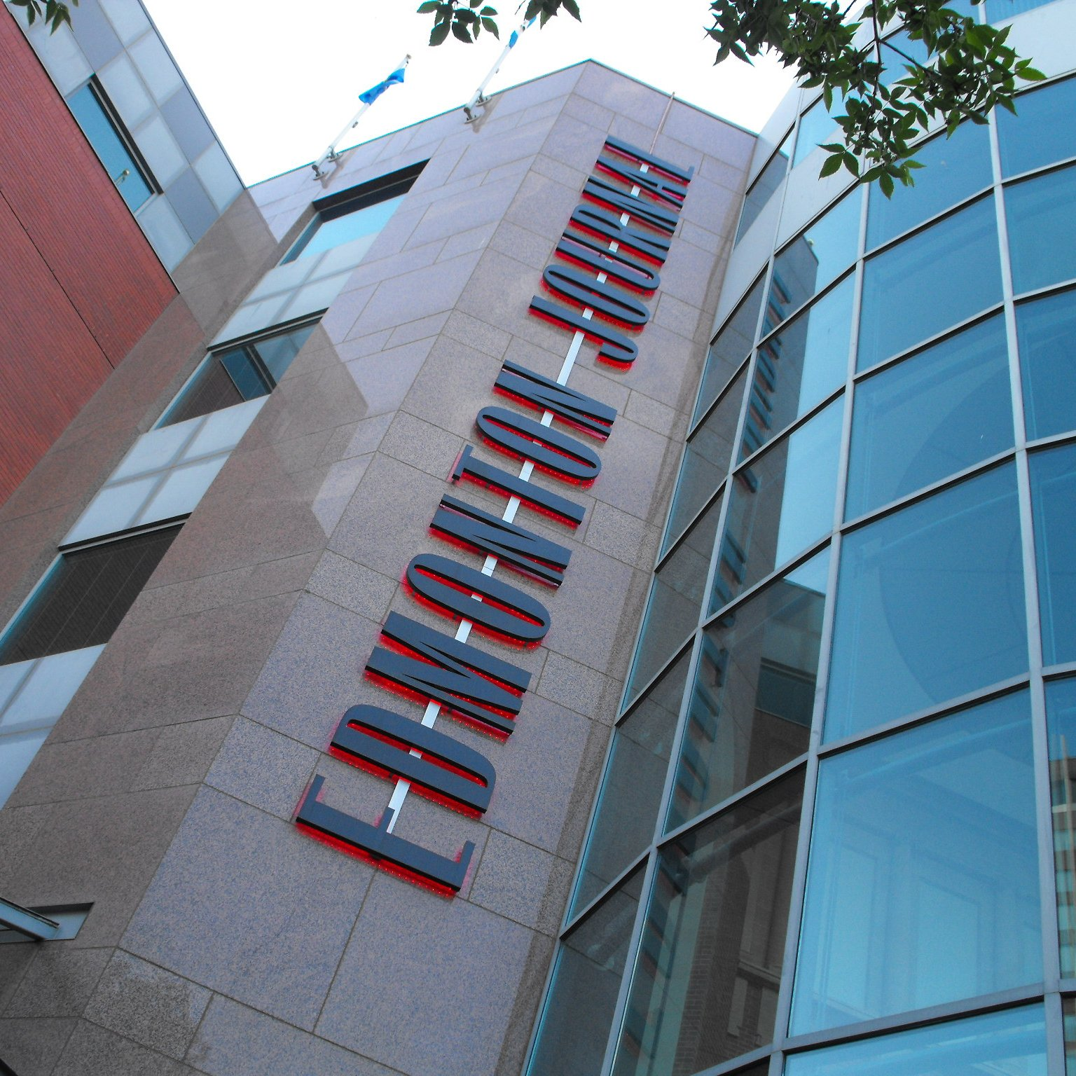 Exterior view (closeup) of Edmonton Journal building, Edmonton, Alberta, Canada